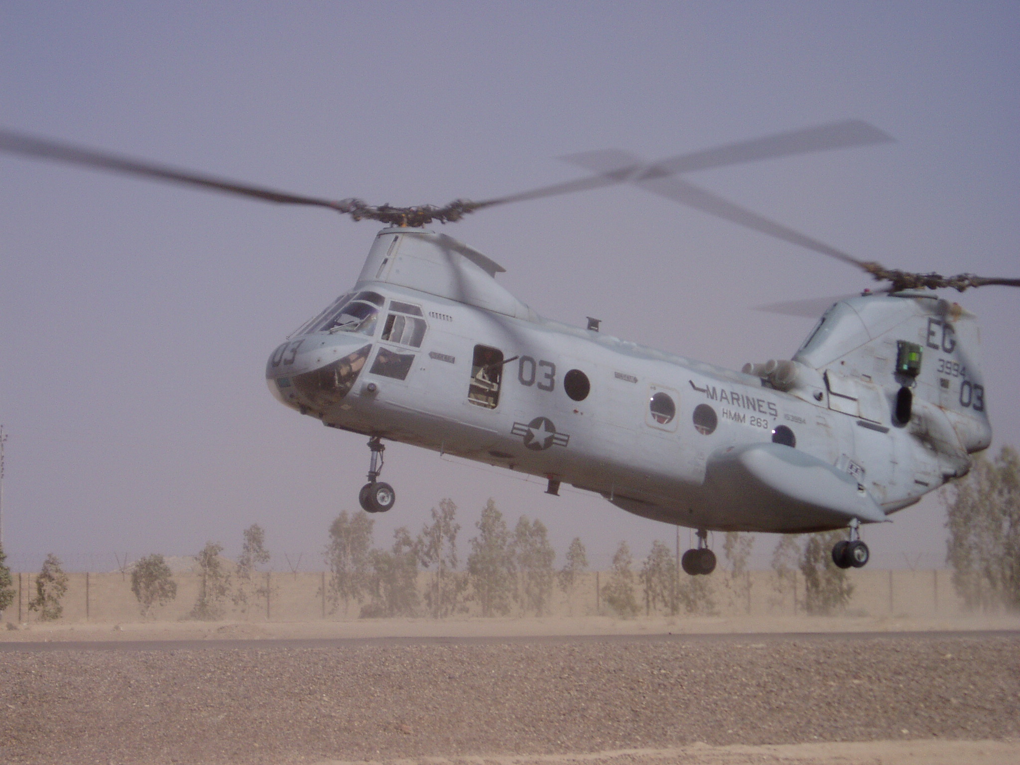 Photo taken by User:Looper5920 in Iraq in 2004. It shows an HMM-263 Phrog at Camp Fallujah Helo pad